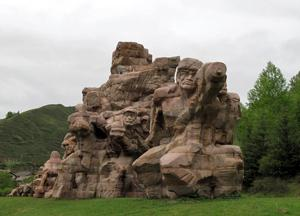 The Long March memorial in Songpan, Sichuan